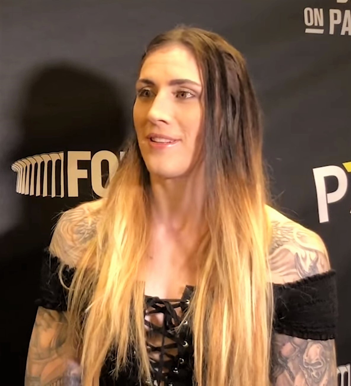 UFC 232: Megan Anderson Critical of UFC Women's Featherweight Division Australian mixed martial artist Megan Anderson interviewed at Ultimate Fighting Championship 232. Visit Europe's biggest MMA website Follow us on our Social Media channels: Facebook: Instagram: Twitter